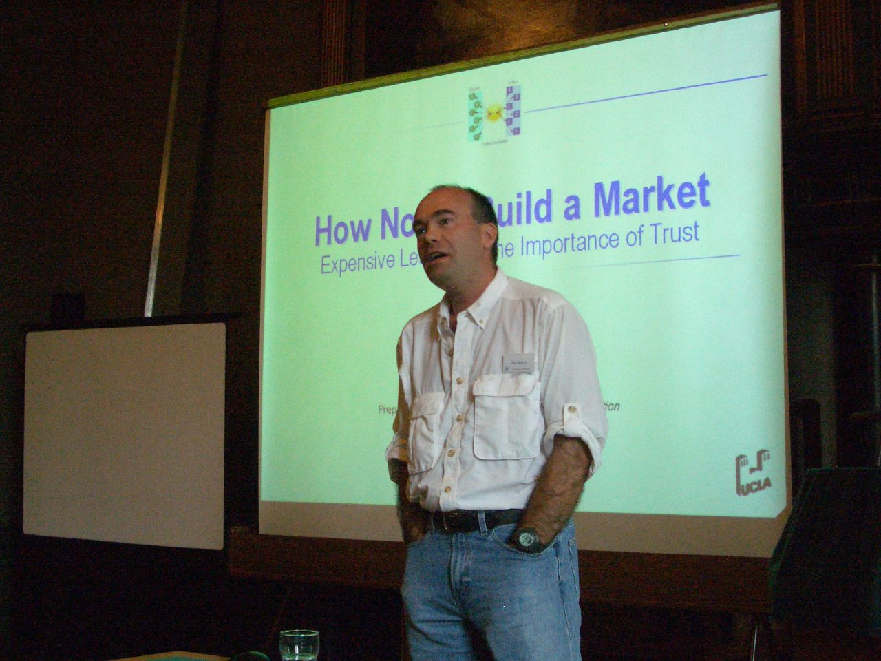 Photo of Peter Kollock at the 2005 Internet Trust and Cooperation Conference